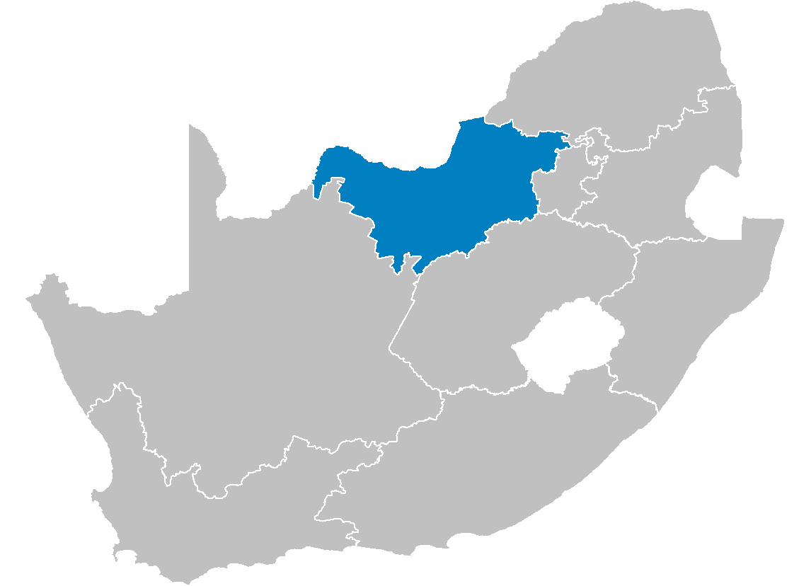 Map of South Africa showing the Nort-West province after the 12th amendment of the constitution in December 2005.